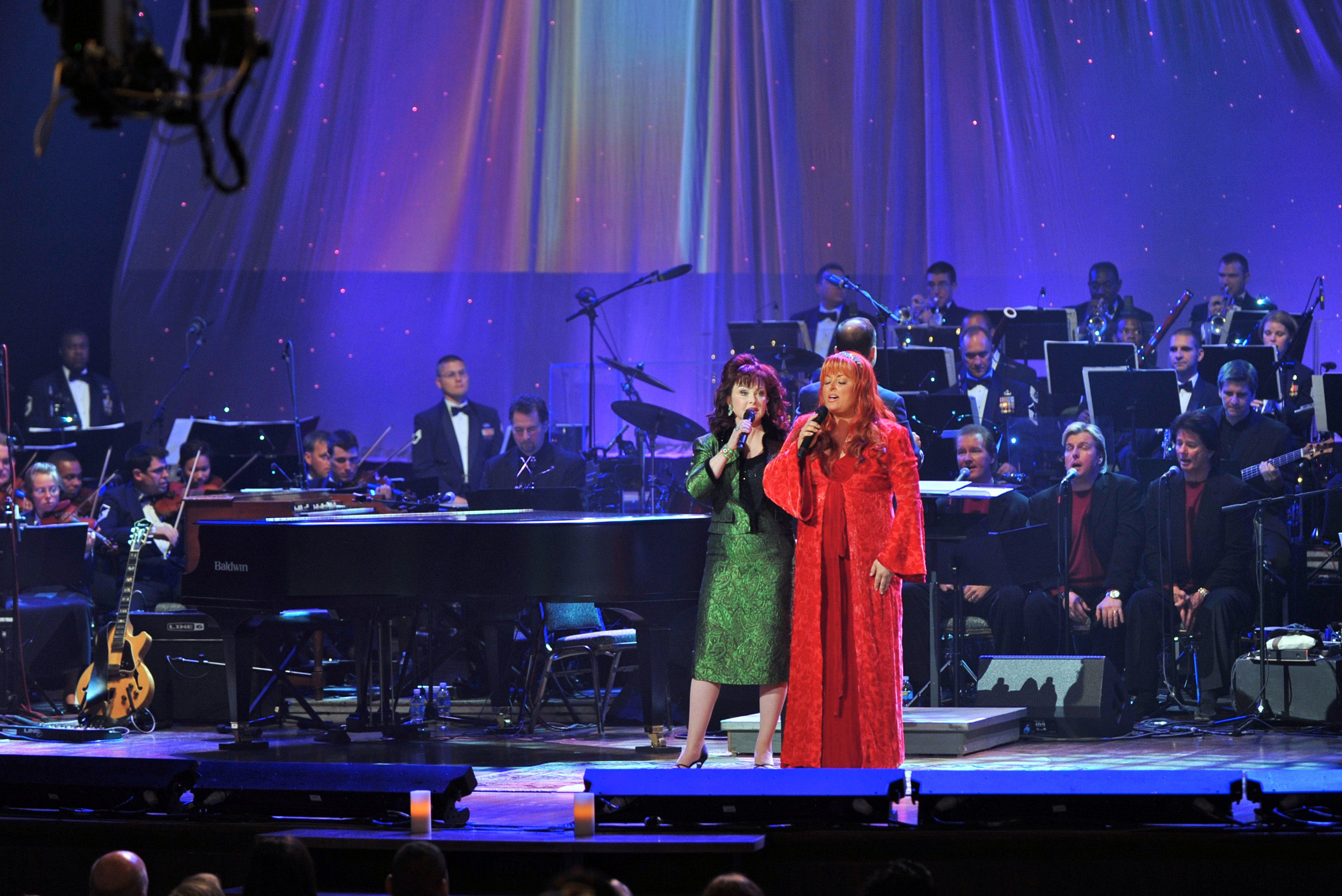 Wynonna and Naomi Judd sing classic holiday music while the Band of the Air Force Reserve and Air Force Strings perform in the background during the 2008 Holiday Notes from Home concert, Dec. 9, 2008, at the Grand Ole Opry House in Nashville, Tenn.